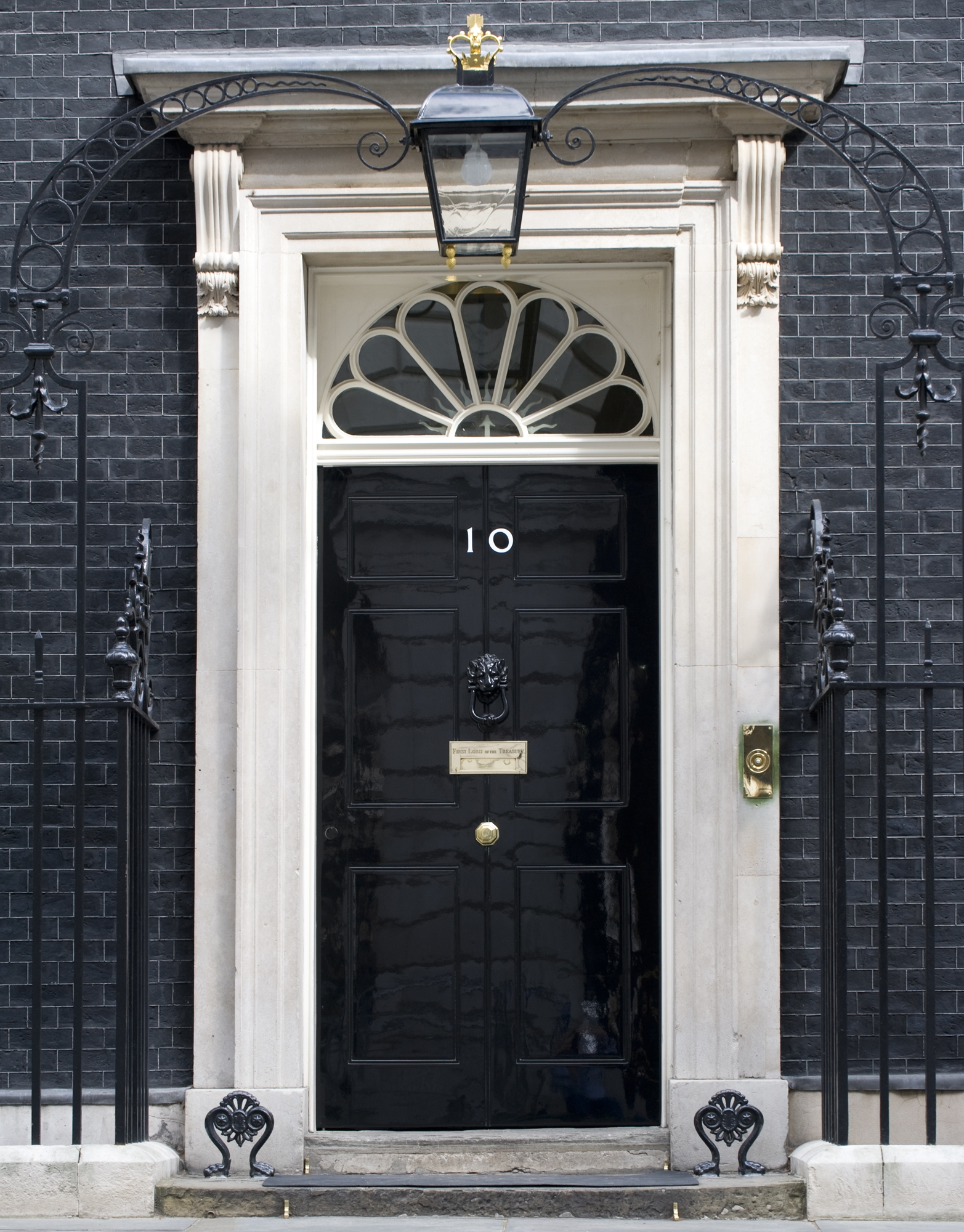 The famous black door of Number 10 Downing Street, London